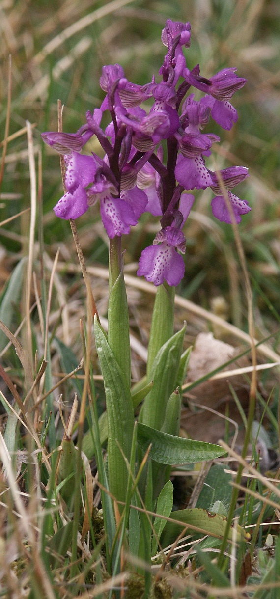 Orchis morio, Virngrund, Germany